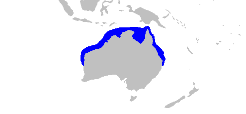 Distribution map for Australian weasel shark (Hemigaleus australiensis)